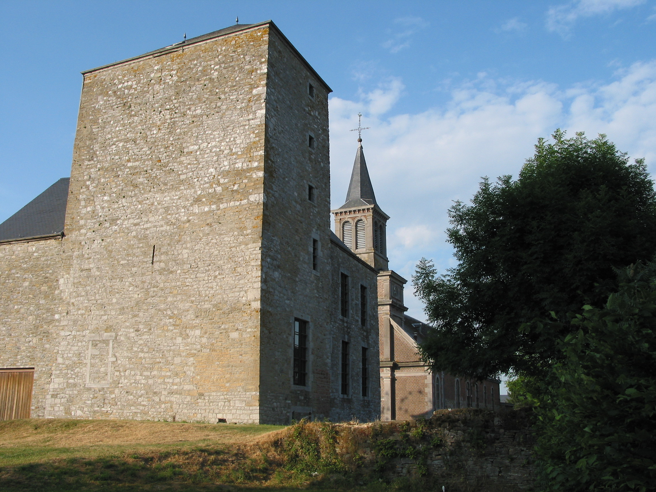 Ouffet (Belgium), the justice tower and the church.